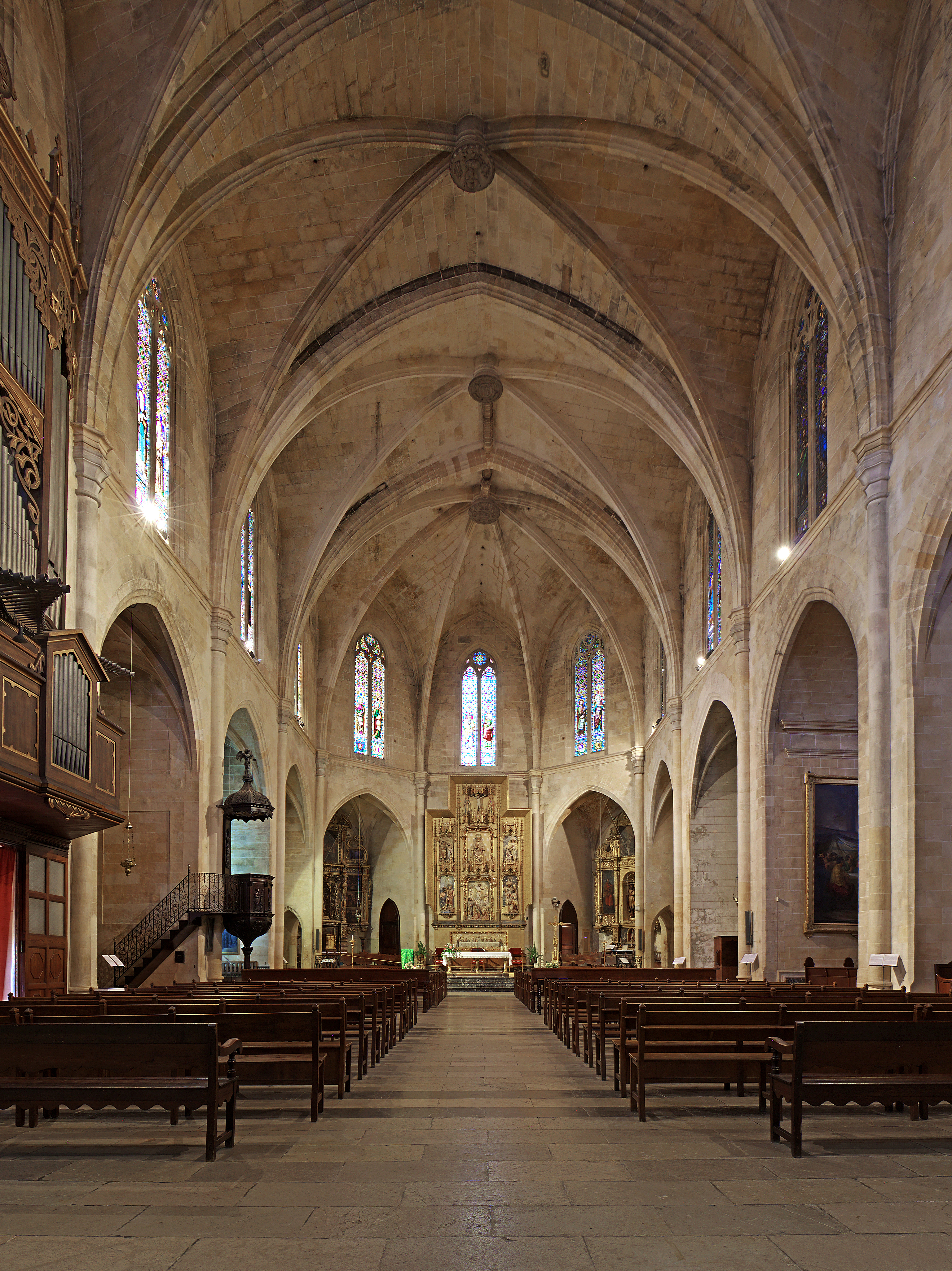 Interior of the parish church Transfiguració del Senyor, Artà, Majorca, SpainFor more information see Transfiguració del Senyor